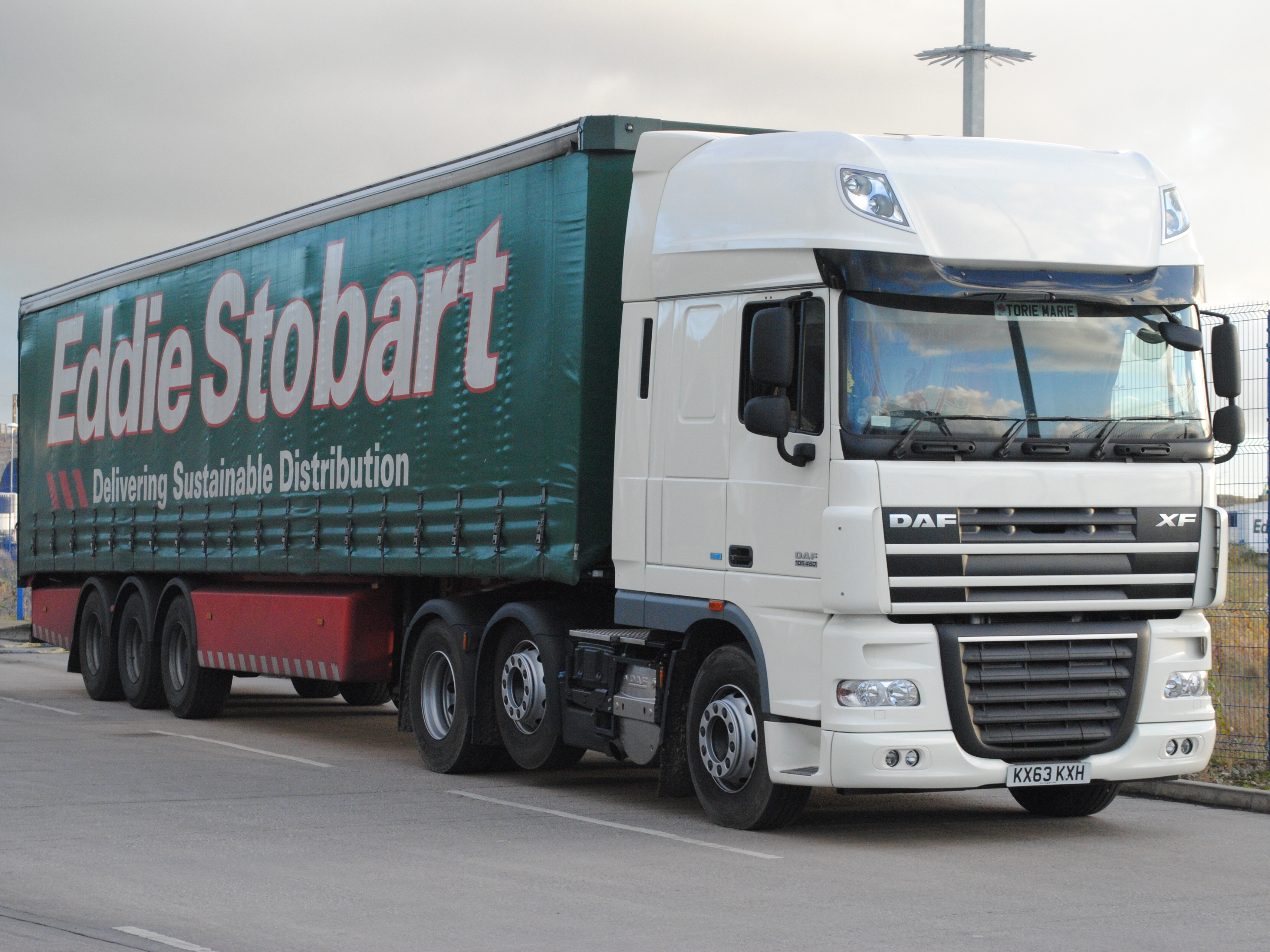 DAF XF 105.460. on hire for Eddie Stobart seen here in Widnes